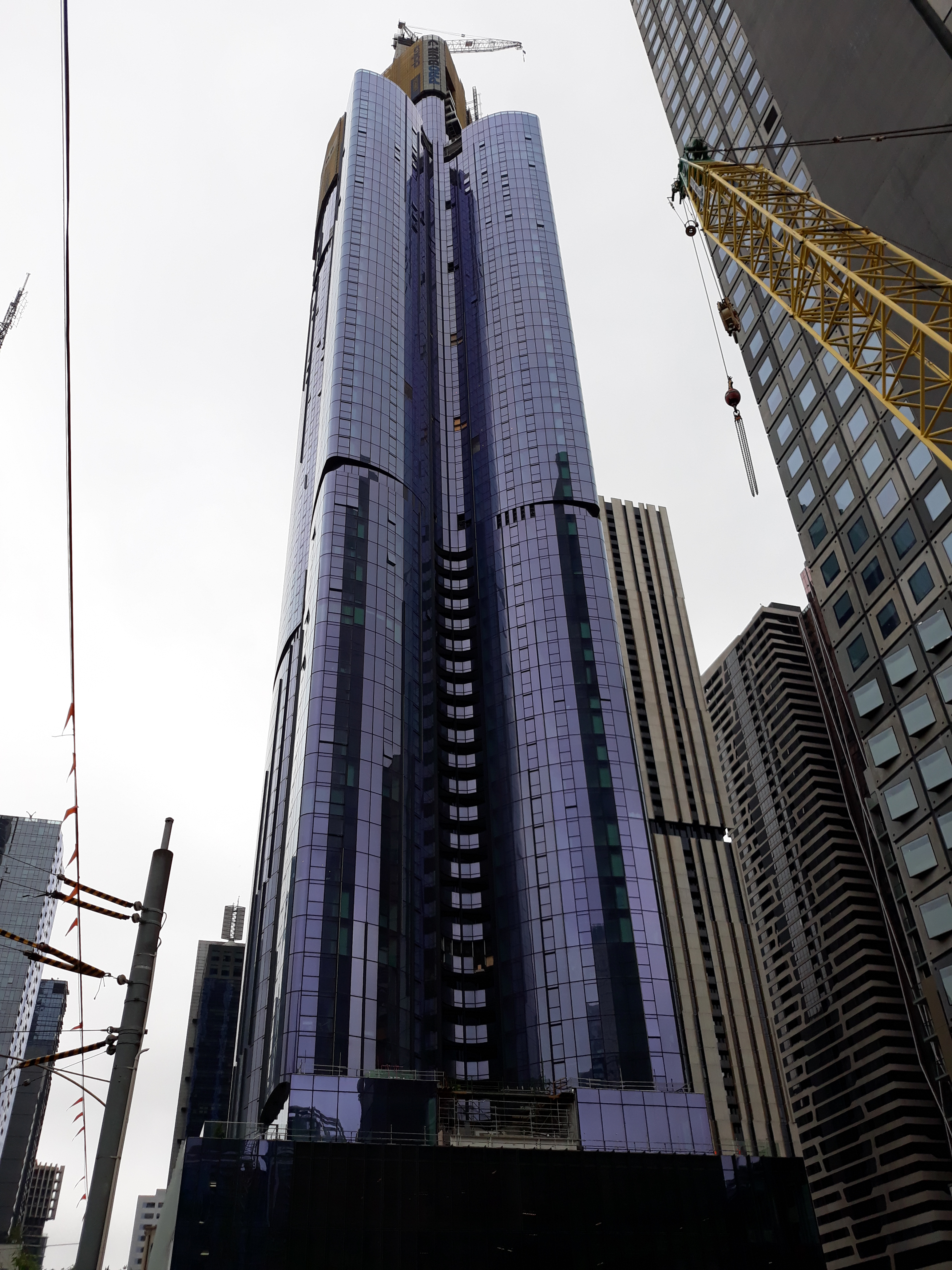 Aurora Melbourne Central under construction on the 14th of November 2018.